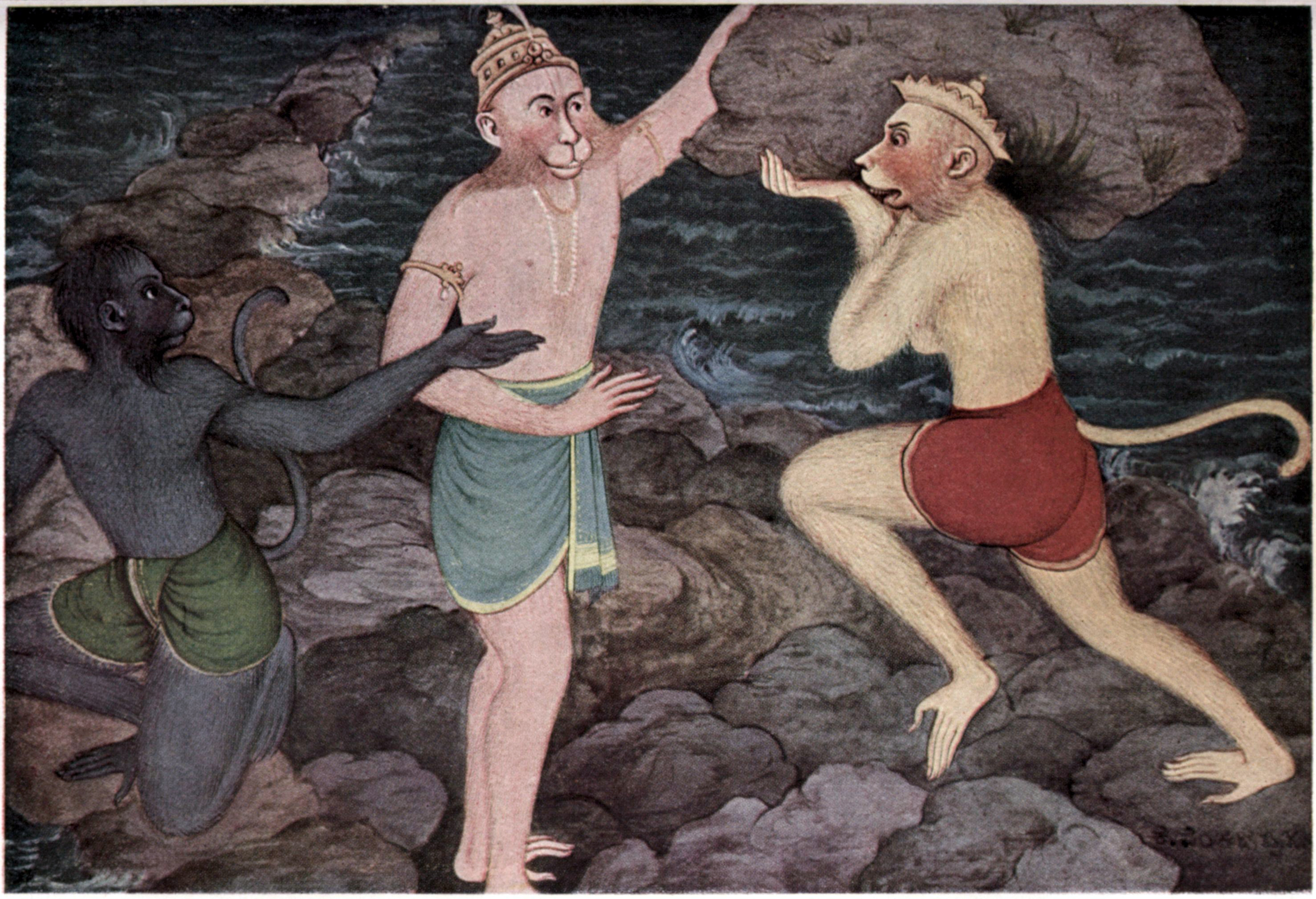 Myths of the Hindus & Buddhists (1914) Author: Nivedita, Sister, 1867-1911; Coomaraswamy, Ananda Kentish, 1877-1947 Subject: Mythology, Hindu; Mythology, Indic; Buddha and Buddhism Publisher: London Harrap Possible copyright status: NOT_IN_COPYRIGHT Language: English Call number: AAV-0085 Digitizing sponsor: MSN Book contributor: Robarts - University of Toronto Collection: robarts; toronto Full catalog record: MARCXML [Open Library icon]This book has an editable web page on Open Library. Be the first to write a review Downloaded 855 times Reviews Selected metadata Identifier: mythsofthehindus00niveuoft Copyright-evidence-operator: University of Toronto scanning center Copyright-region: US Copyright-evidence: Evidence reported by University of Toronto scanning center for item mythsofthehindus00niveuoft on May 12, 2006; no visible notice of copyright and date found; stated date is 1914; not published by the US government; Have not checked for notice of renewal in the Copyright renewal records. Copyright-evidence-date: 2006-05-12 20:39:44 Scanningcenter: UofT Operator: scanner-joanna-woodcock Mediatype: texts Scanner: uoft3 Scandate: 20060517130853 Imagecount: 518 Sponsordate: 20060531 Filesxml: Thu Mar 18 6:17:31 UTC 2010 Ppi: 500 Identifier-access: Identifier-ark: ark:/13960/t50g4p70x